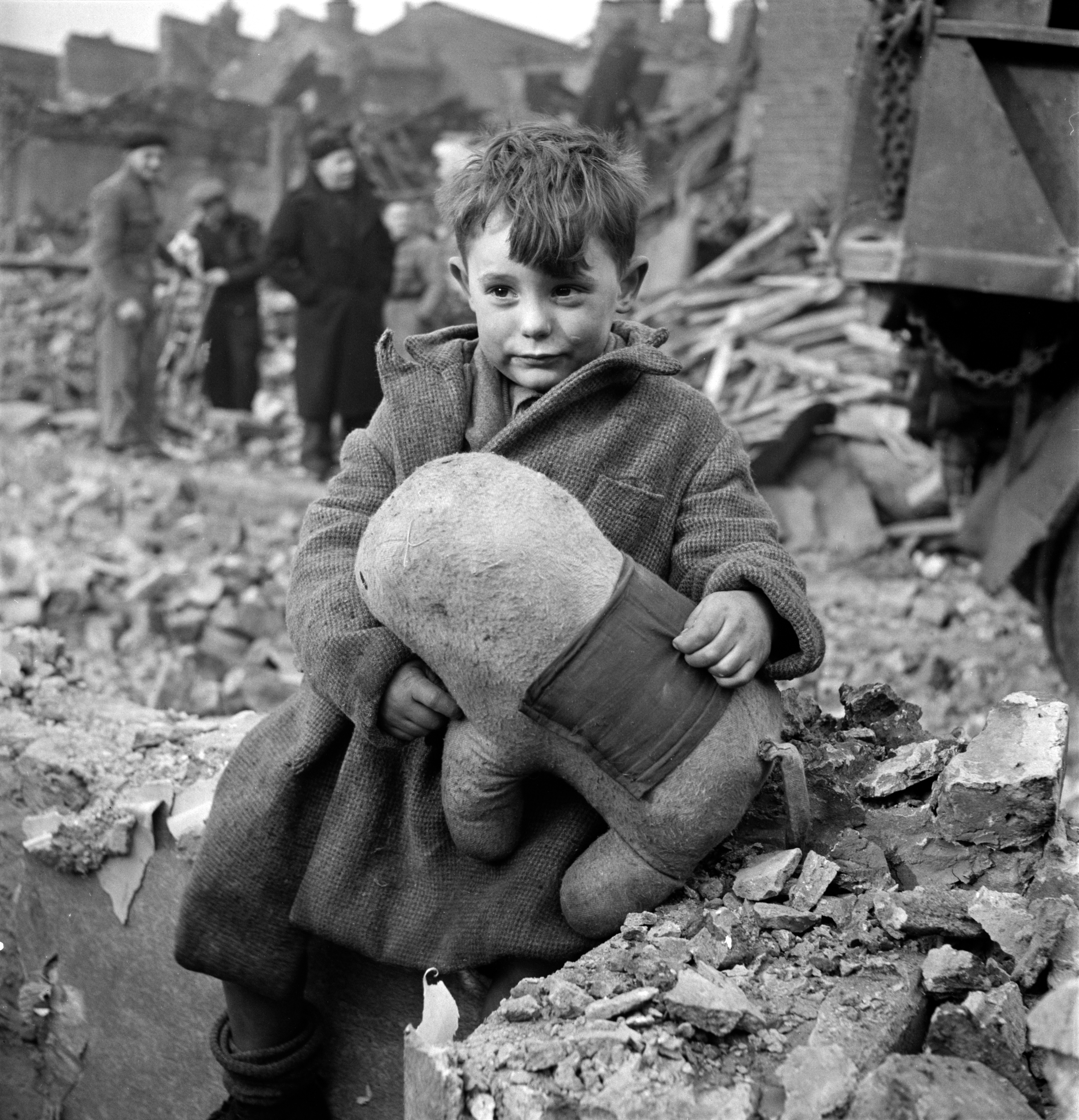 Abandoned boy holding a stuffed toy animal amid ruins following German aerial bombing of London, England.